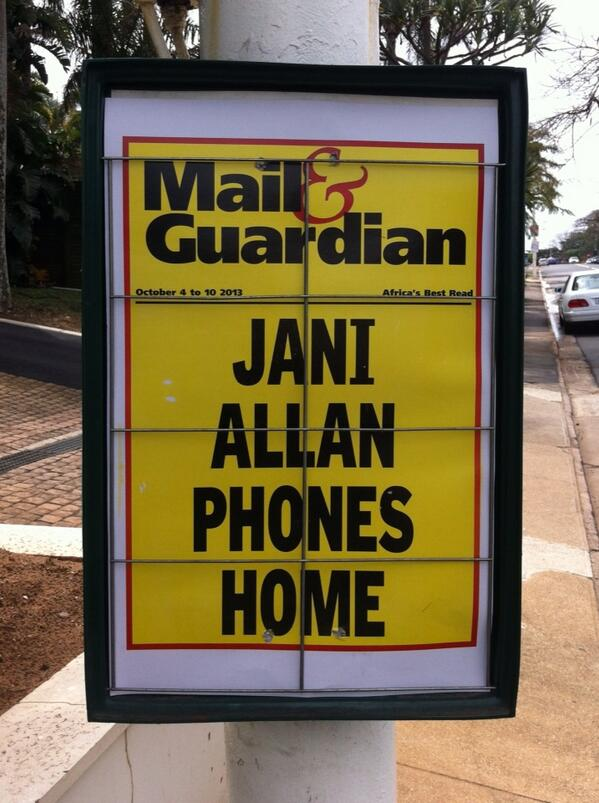 Jani Allan phones home, promotional poster for 'The return of Jani Allan' story published on 4 October 2013.